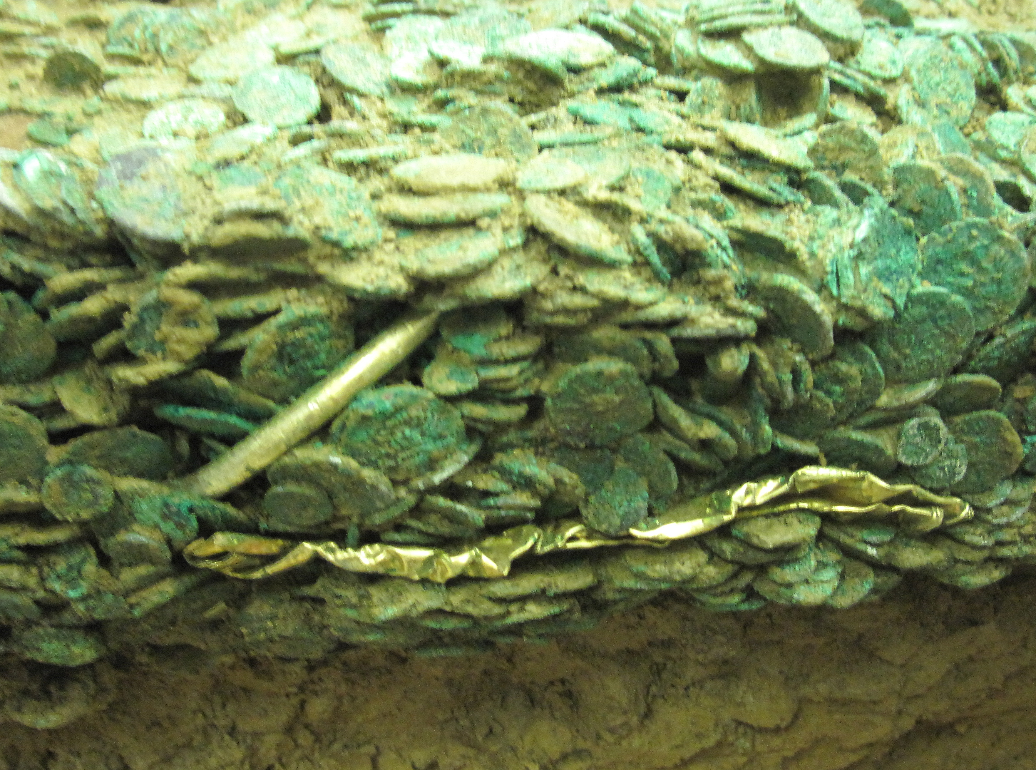 Grouville Hoard, Jersey, while undergoing cleaning and investigation 2012 Nrf: L'anichette dé Grouville, 2012